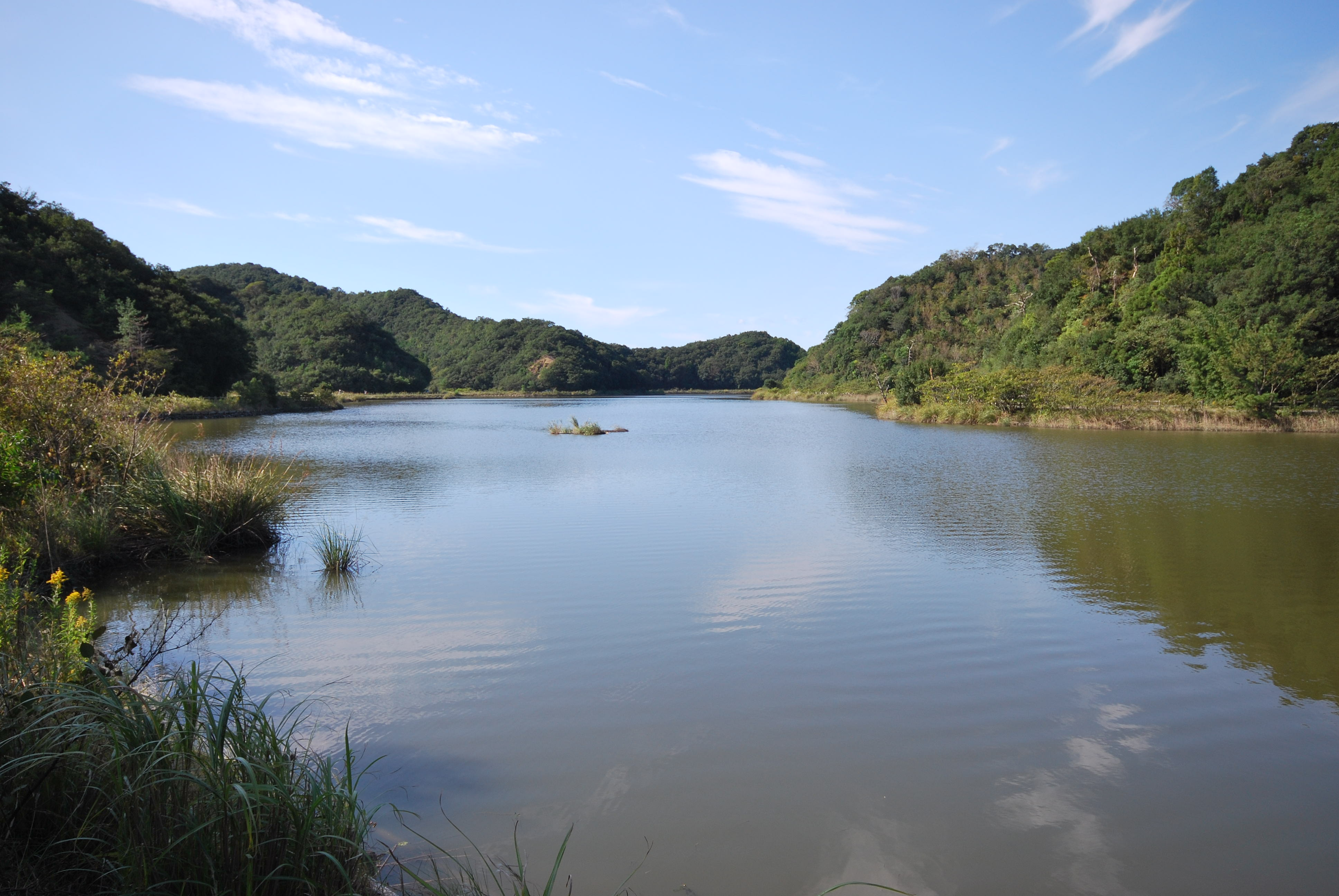 Ebi-ga-ike pond from north east side